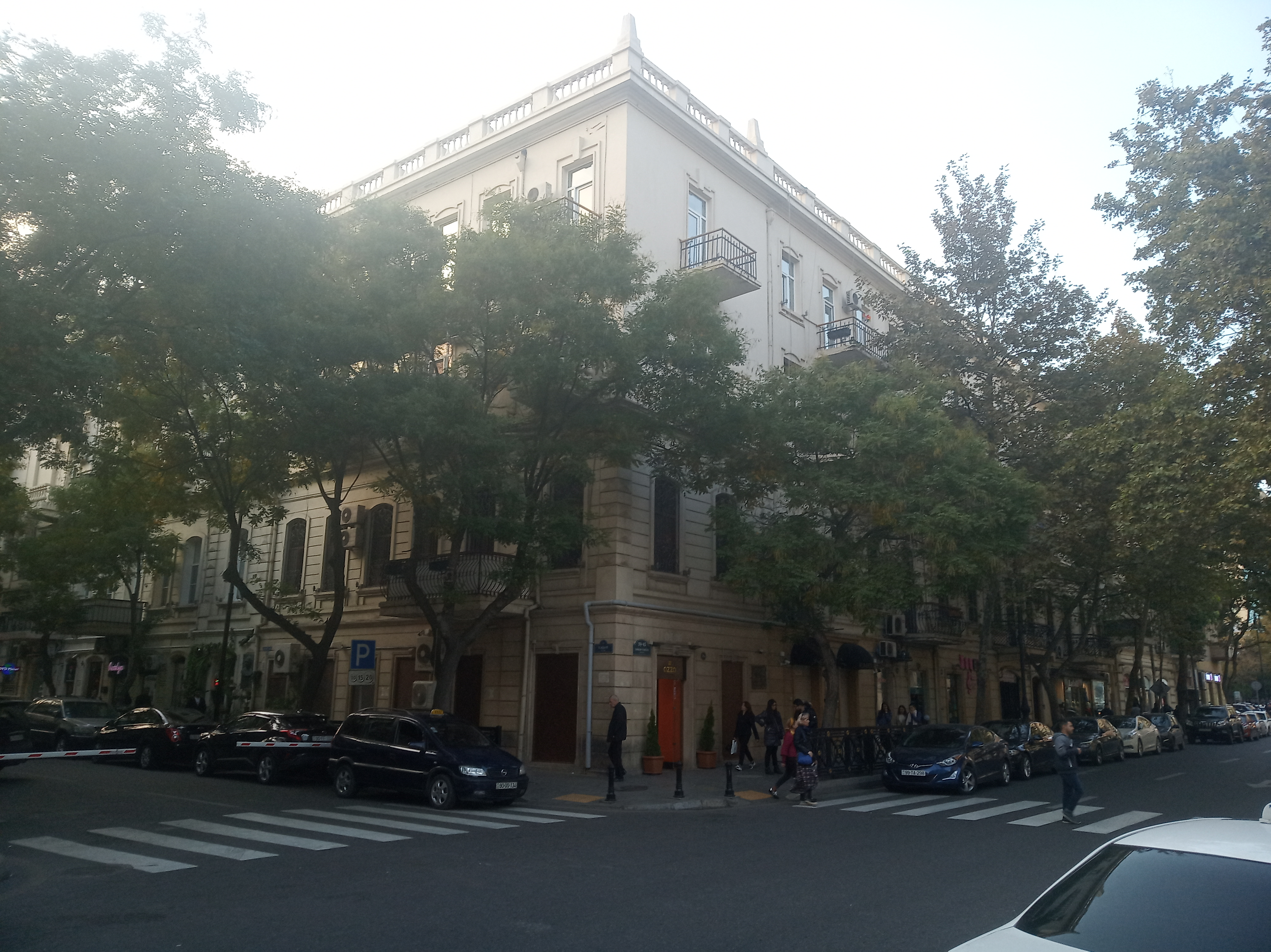 Building in Baku where Yusif Safarov lived